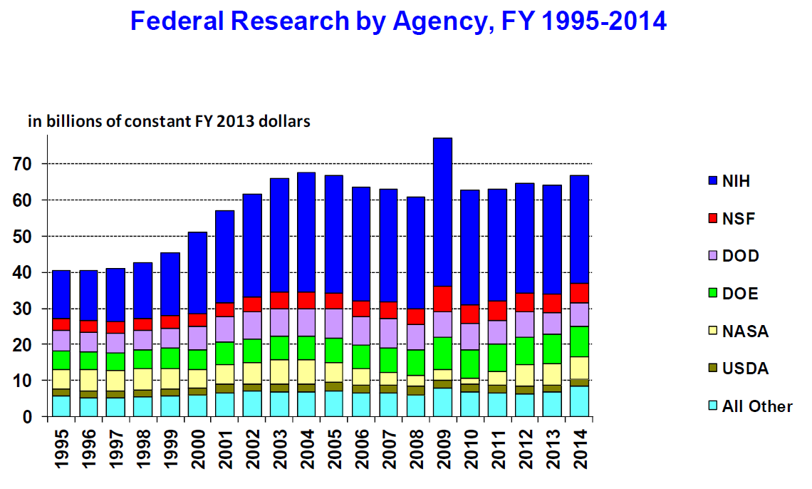 Original caption: "Federal Research by Agency, FY 1995–2014, in billions of constant FY 2013 dollars. FY 2009 figures include Recovery Act appropriations. Research includes basic research and applied research."